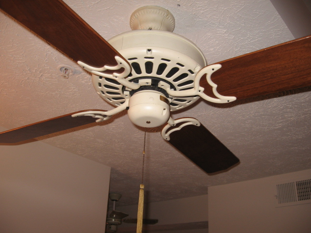 Picture of one of the ceiling fans in my collection; this is a "Delta" made by the Casablanca Fan Co.; model 10666, manufactured 6/5/1982.